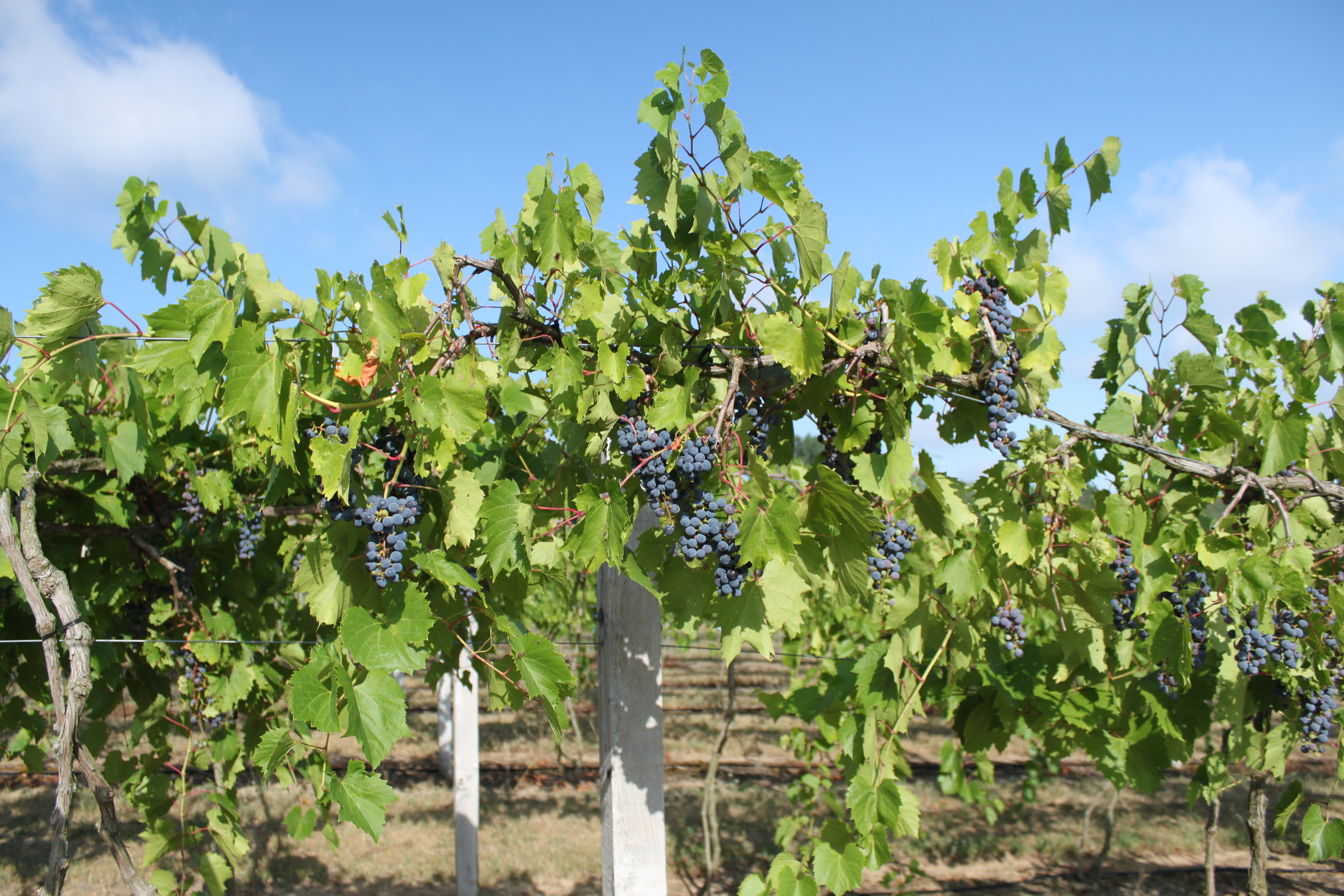 Frontenac grapes on the vine, Flying Otter Vineyard and Winery, 3402 Chase Road, Raisin Township (Adrian), Michigan.